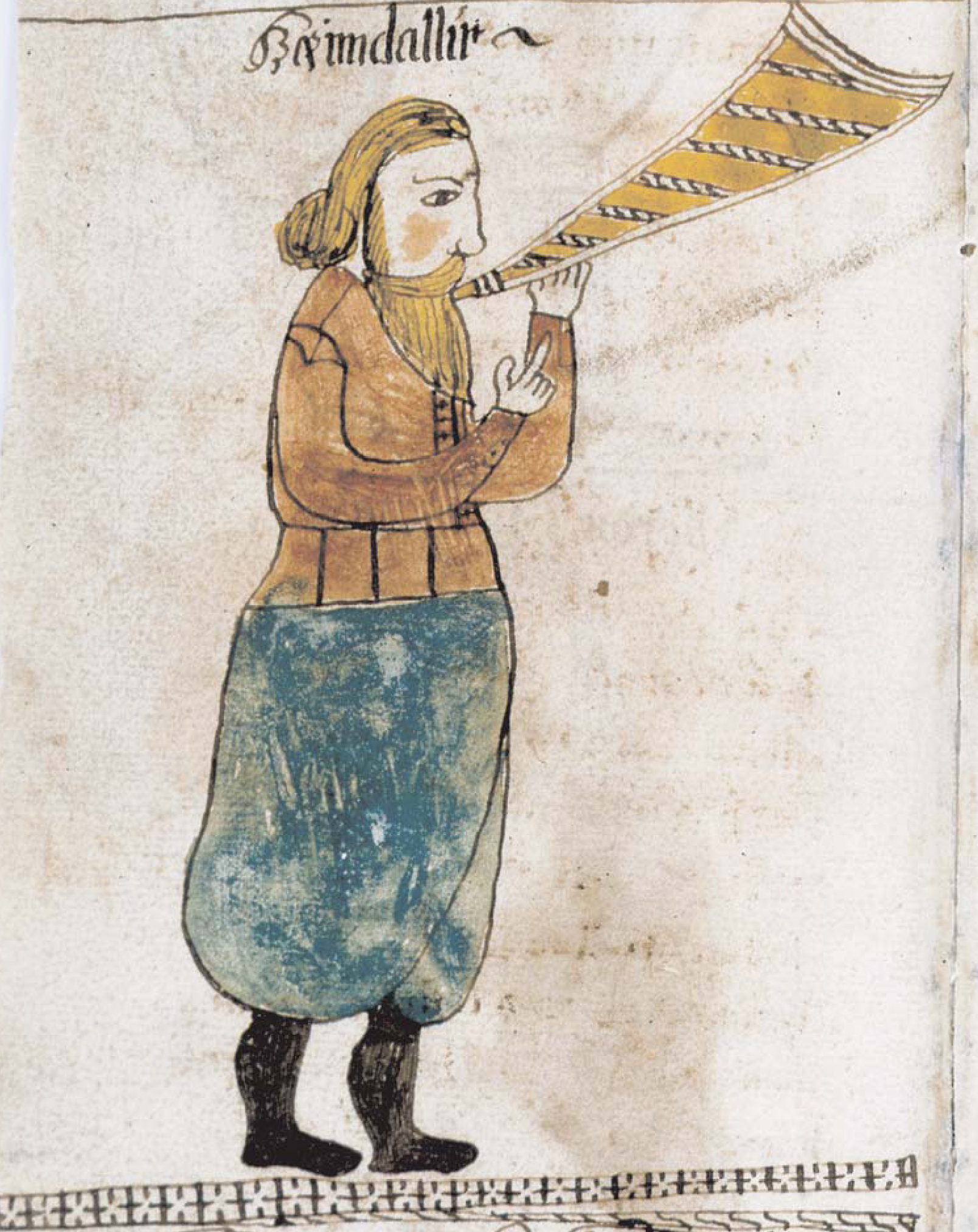 Heimdallr. Picture from the 17th century Icelandic manuscript AM 738 4to, now in the care of the Árni Magnússon Institute in Iceland. {AMI} Category:Illuminated manuscript images Category:Images from Norse mythology